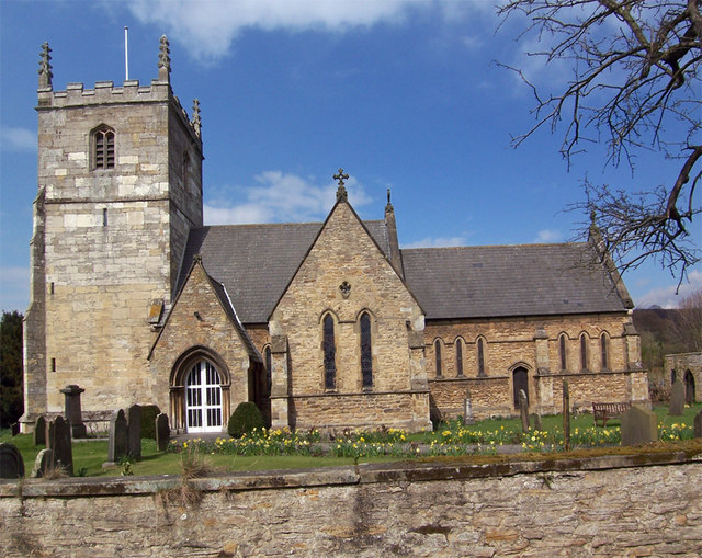 Church of St. Mary, Elloughton, East Riding of Yorkshire, England.Photo taken from Church Lane.